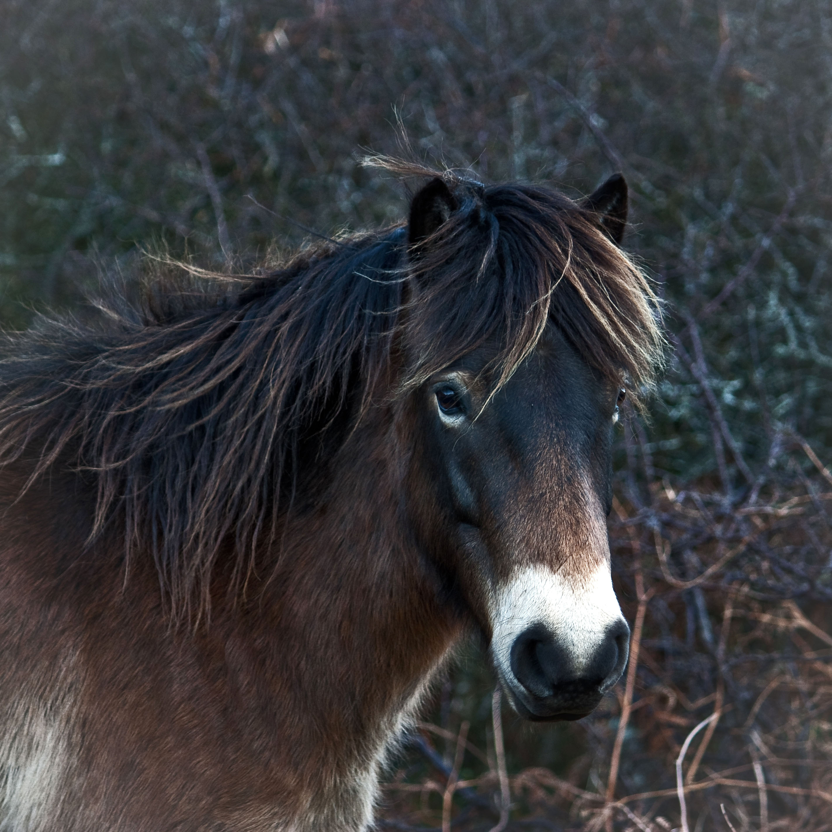 I find Exmoor ponies very hard to resist as a subject!